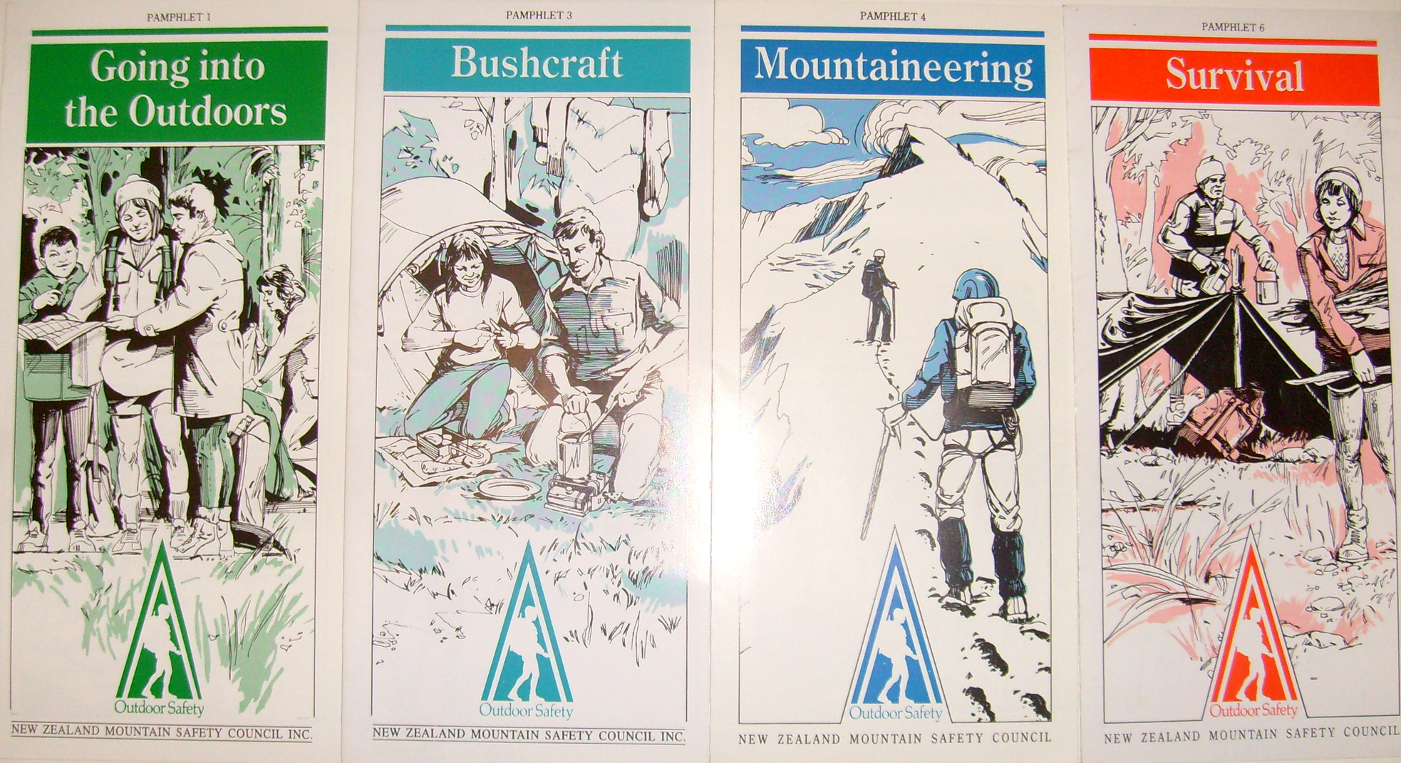 some examples for the series of NZMSC educational outdoor pamphlets